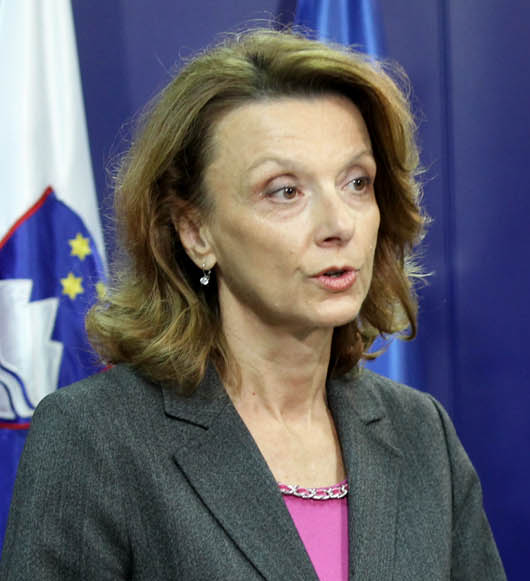 Dr. Milica Pejanovic-Djurisic, Minister of Defense of Montenegro, on her official visit to Slovenia.